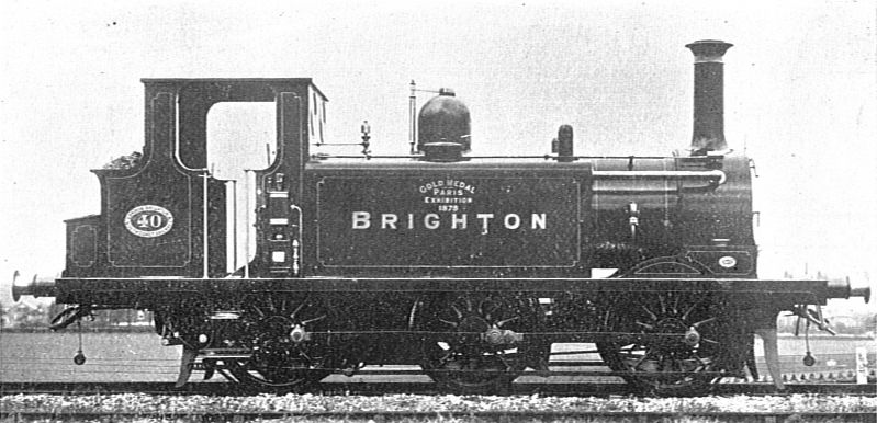 Stroudley's "Terrier" Type for the London, Brighton and South Coast Railway